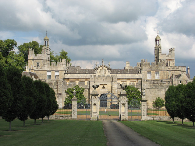 Drayton House, south-east front with gates and gatepiers